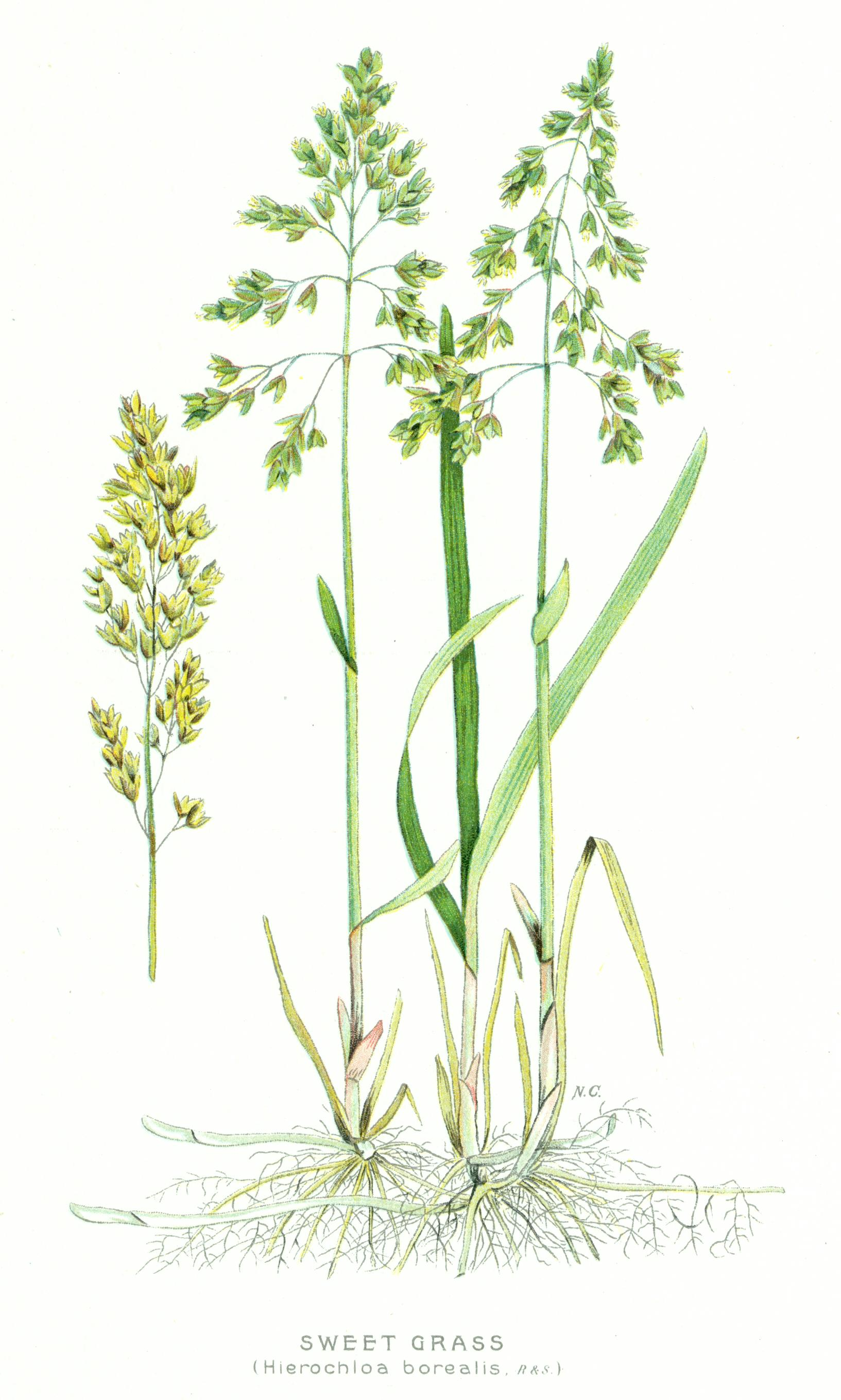 Sweet grass (Hierochloa borealis)